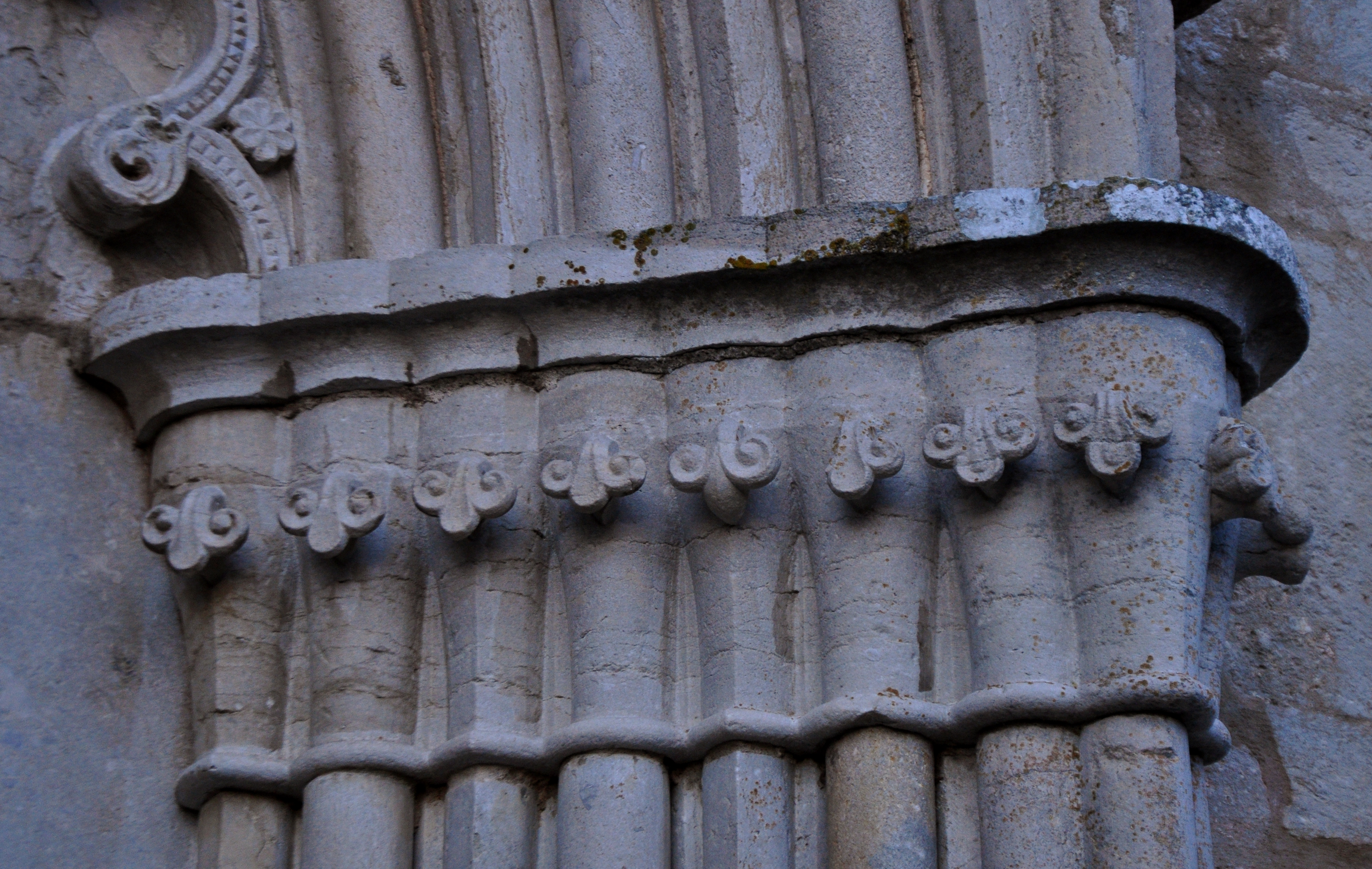 Capitals, Klinte Church, Gotland